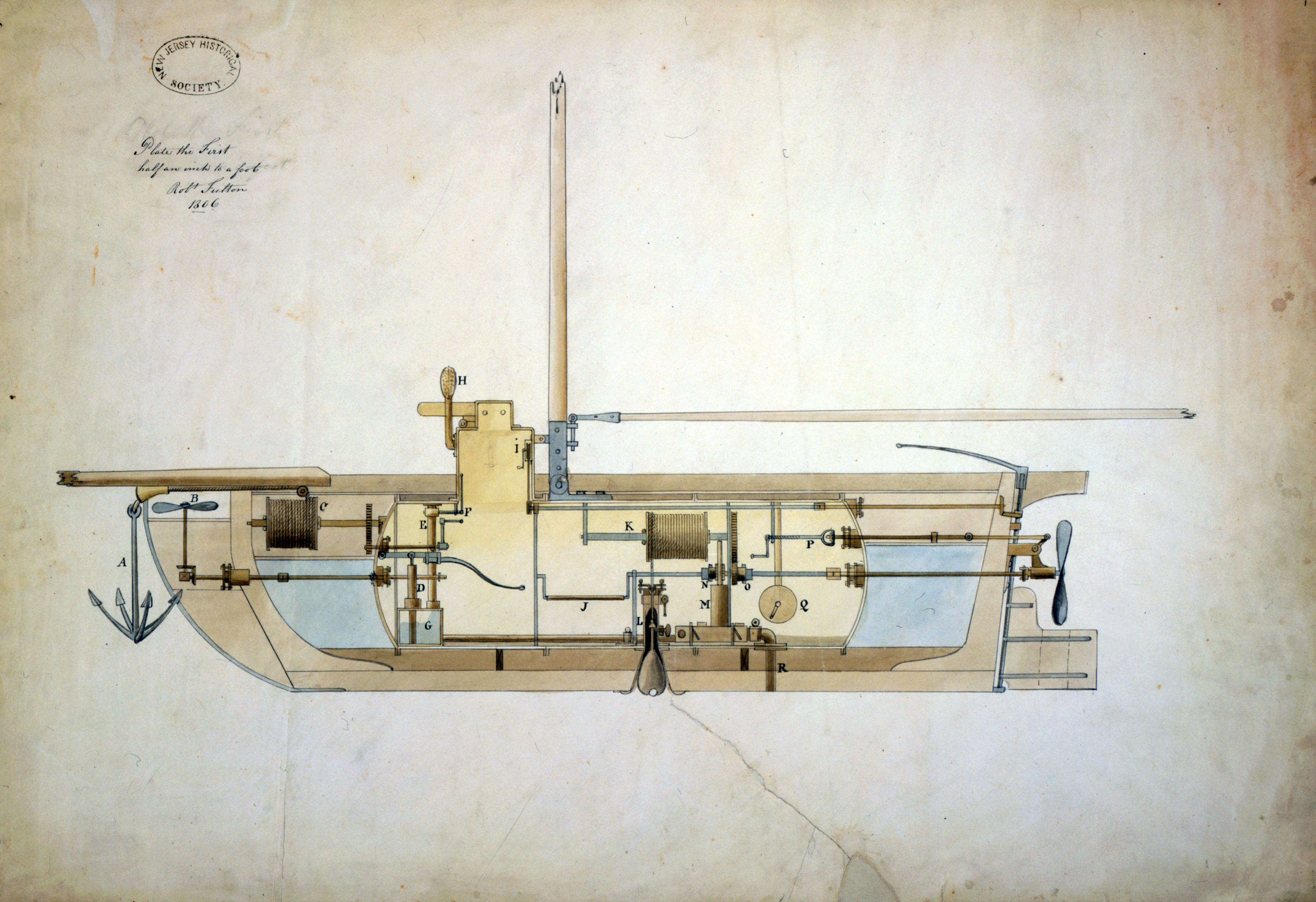 Submarine ("Submarine Vessel, Submarine Bombs and Mode of Attack") for the United States government. Submarine vessel, longitudinal section. Scan from original engineering design in pencil, ink, and watercolor. 1806.